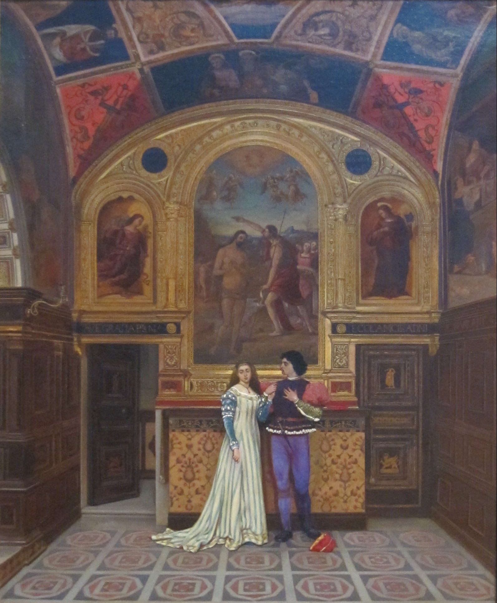 Romeo and Julietlabel QS:Lde,"Romeo und Julia"label QS:Len,"Romeo and Juliet"